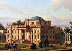 Detail from The Gomel Residence, by Marcin Zaleski